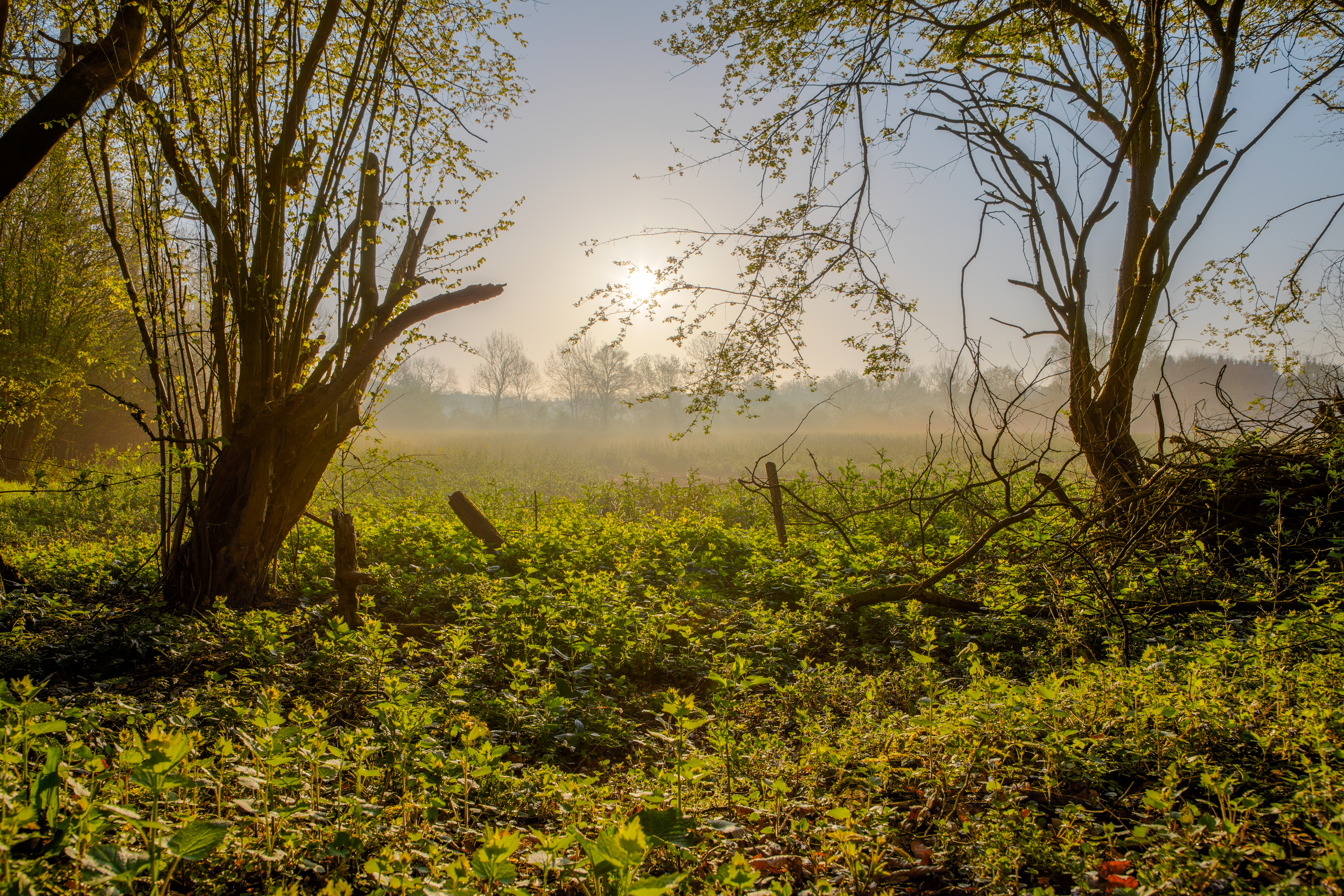 Nature reserve Ichterloh, Nordkirchen, North Rhine-Westphalia, Germany